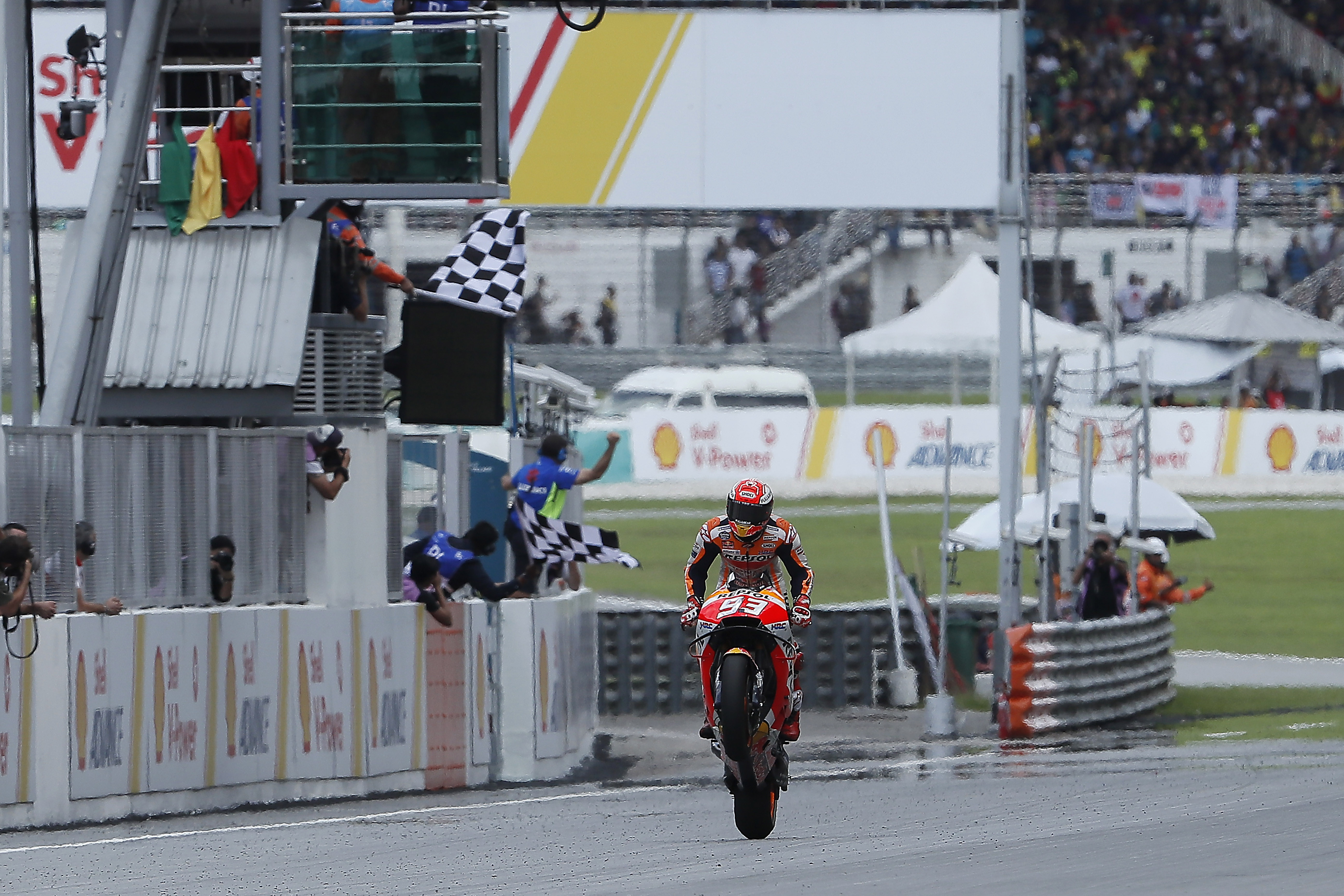 Marc Márquez, riding his Repsol Honda, crossing the line whilst doing a wheelie to win the 2018 Malaysian Grand Prix, as well as the 2018 constructors championship for the Repsol Honda team.